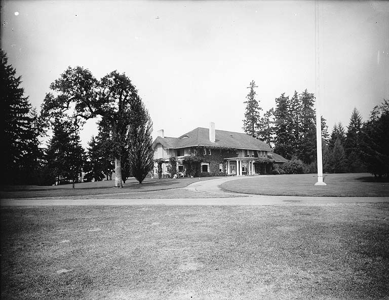 On sleeve of negative: Tacoma Country Club, exterior view of bldg. Subjects (LCTGM): Country clubs--Washington (State)--Tacoma Subjects (LCSH): Tacoma Country & Golf Club (Tacoma, Wash.); Tacoma (Wash.)--Buildings, structures, etc.